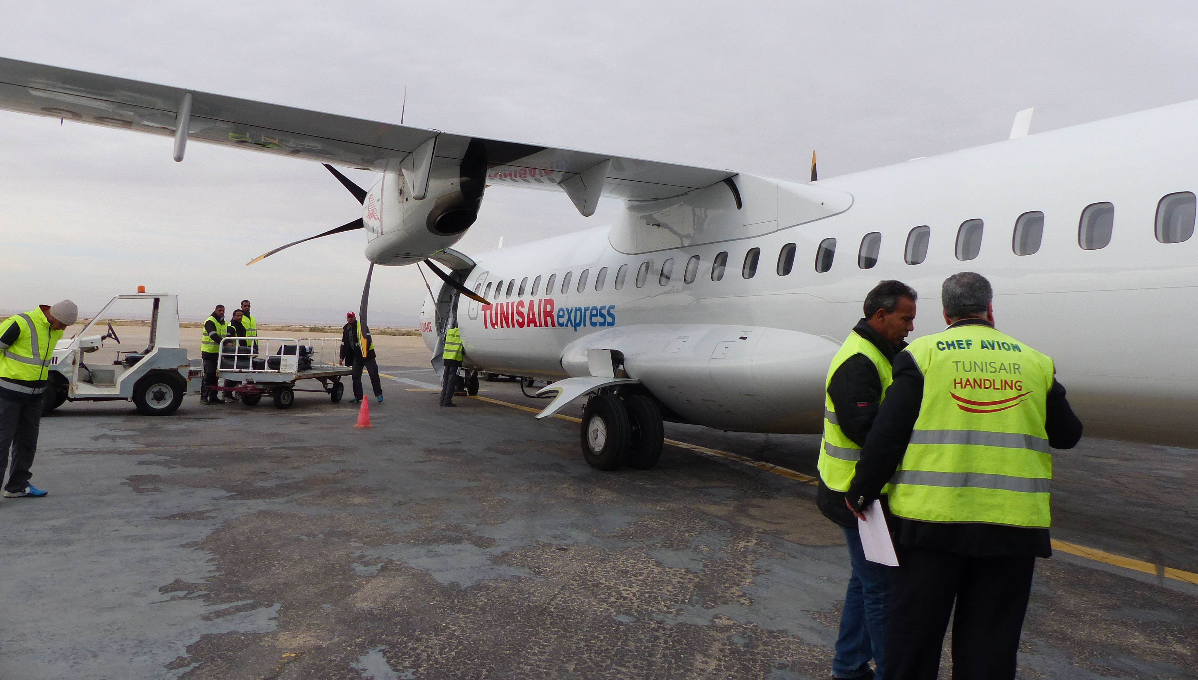 This is an image with the theme "Africa on the Move or Transport" from: Tunisia